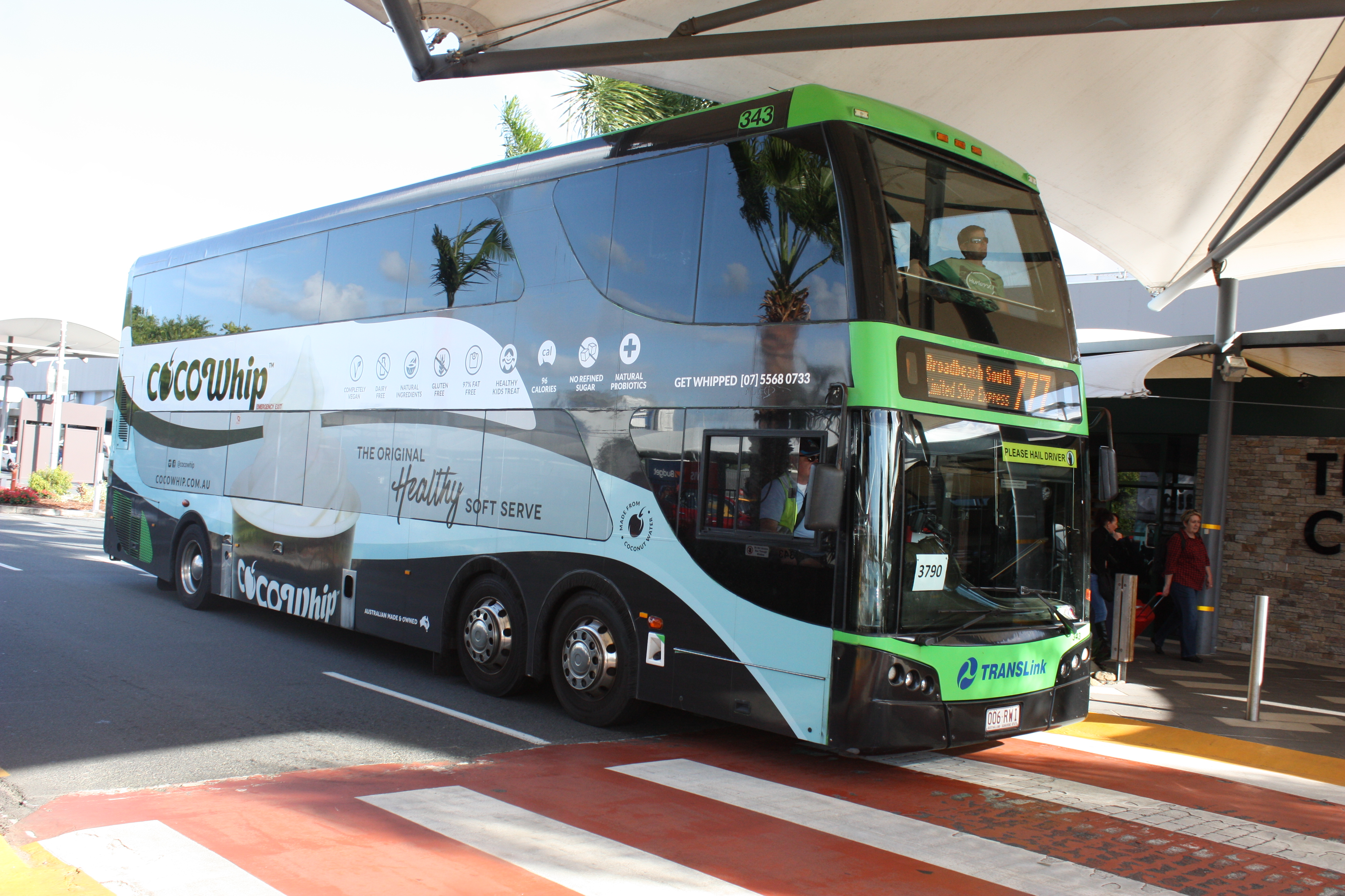 Bustech CDi Surfside 343 at GC Airport